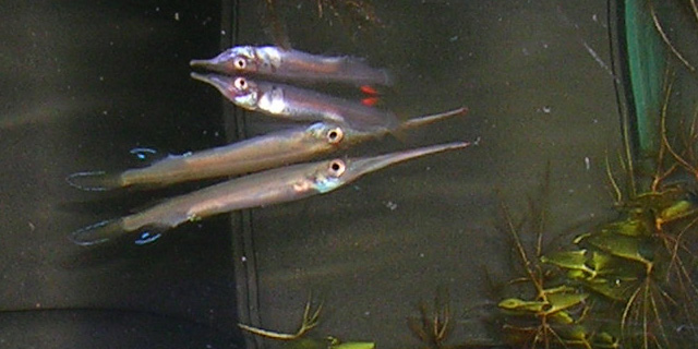 Subadult female Hemirhamphodon pogonognathus at rear with a juvenile male Dermogenys in front. The larger of the two fishes is about 4 cm long. The difference in beak length between these two genera is obvious. Aquarium specimens. Taxonomy Chordata : Actinopterygii : Beloniformes : Hemiramphidae : Freshwater halfbeak